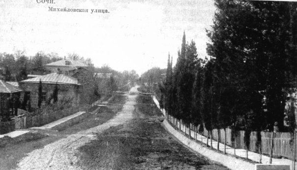 Mikhaylovskaya street in Sochi, Russia